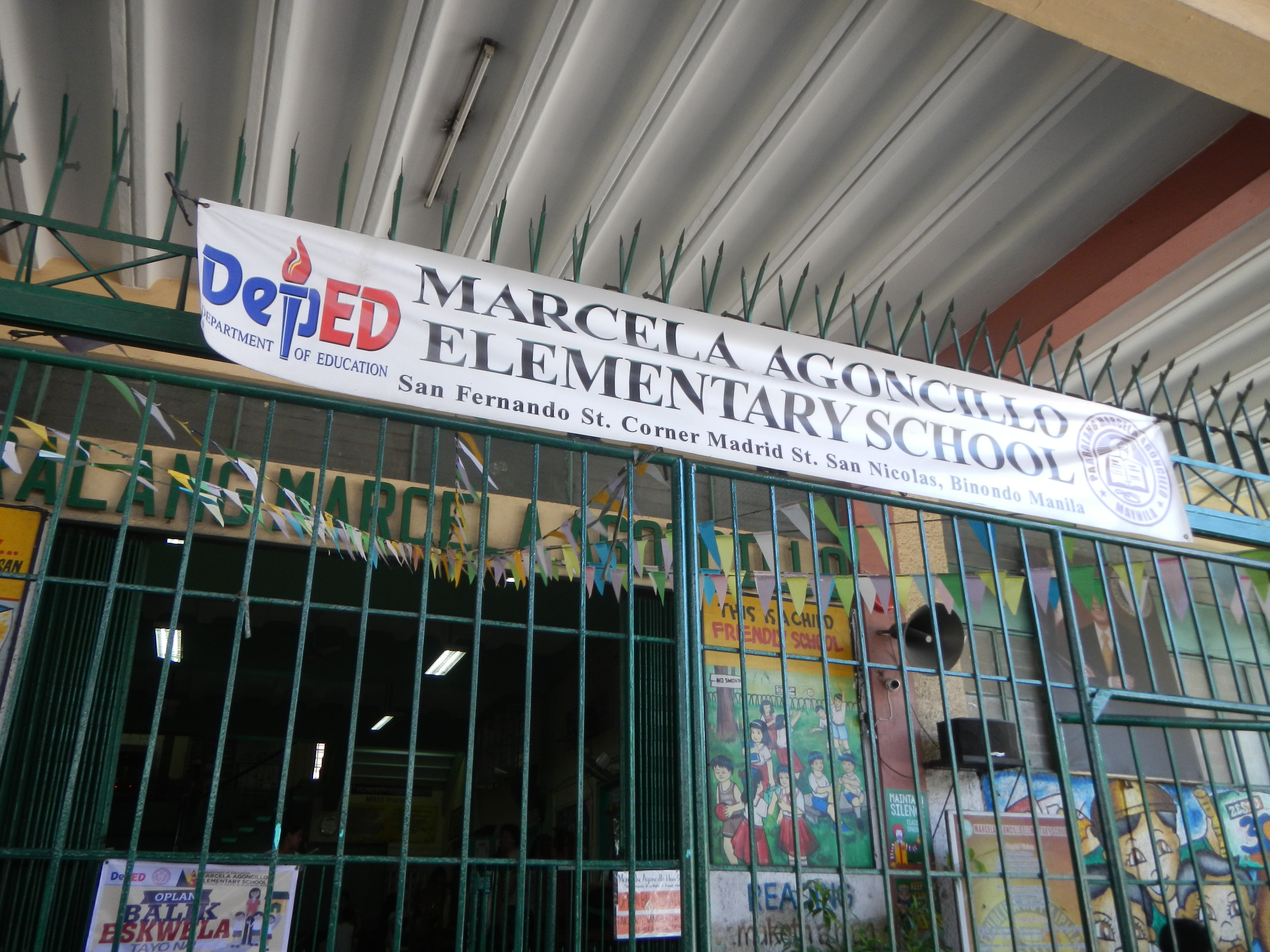 Pasig River Pasig River (Muelle del Banco Nacional-Muelle de la Industria, Santa Cruz-Jones & Del Pan Bridges, Santa Cruz-Binondo-Tondo, Manila section) to Tankers, Tugboats and Barges (Pasig River Muelle del Banco Nacional-Muelle de la Industria, Santa, Cruz-Jones & Del Pan Bridges, Santa Cruz-Binondo-Tondo, Manila section) Landmarks (include the Arch of Solidarity (San Nicolas, Manila) Pedro Guevarra Elementary School (San Nicolas, Manila) San Nicolas Public Library San Nicolas Fire Station NCR, Manila Fire District, District I, 1901 San Fernando Street corner Madrid Street Marcela Agoncillo Elementary School (San Nicolas, Binondo, Manila) Legislative districts of Manila 3rd District, Barangays 281, 282, 283, 284, 285 & 286, Zone 26, 287, Zone 27, District III, Binondo, Manila, City of Manila ; Note: Judge Florentino Floro, the owner, to repeat, Donor Florentino Floro of all these photos hereby donate gratuitously, freely and unconditionally all these photos to and for Wikimedia Commons, exclusively, for public use of the public domain, and again without any condition whatsoever).